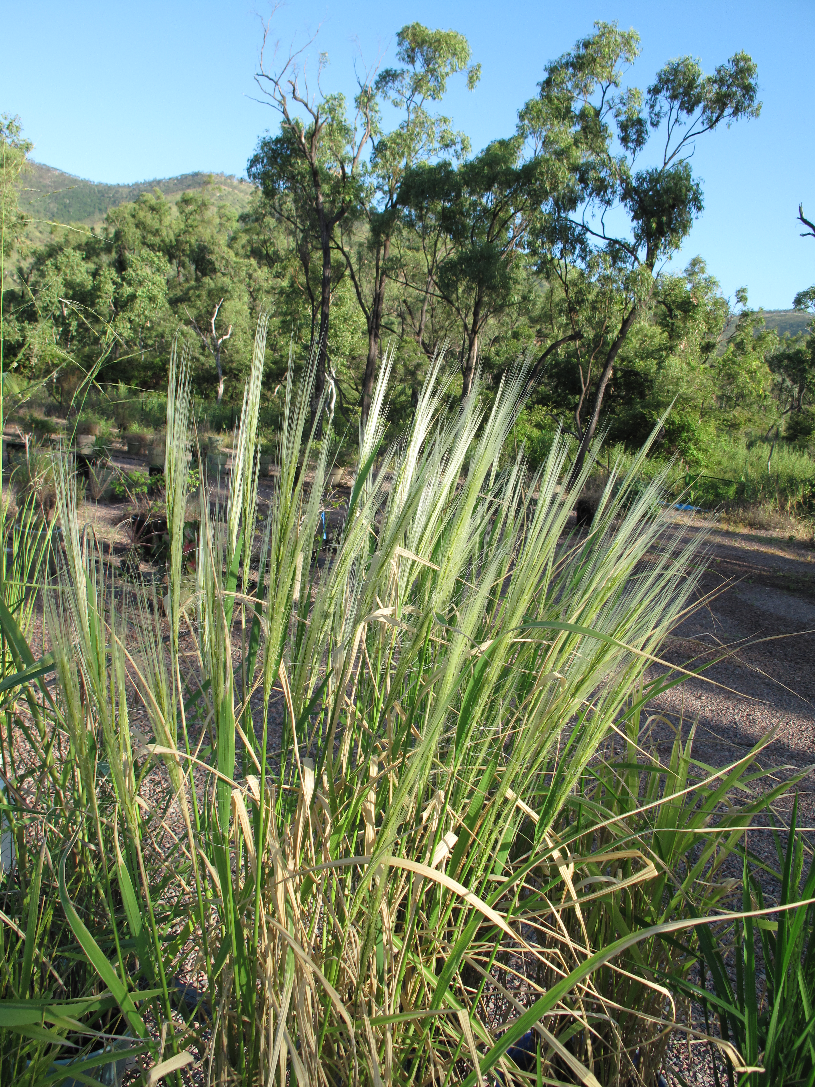 Wild Australian rice (Oryza meridinaliis) cultivated at JCU Townsville north Queensland. Chris Gardiner